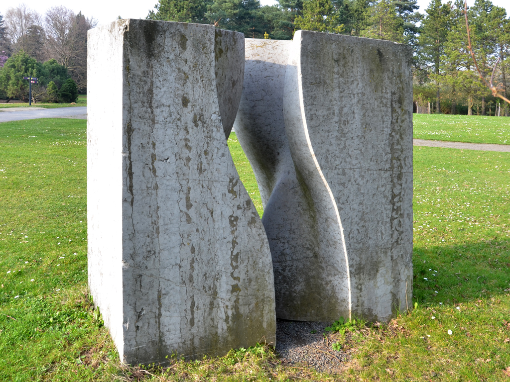 Sculpture by Zdeněk Šimek, Tension – Adam and Eve (limestone), 1970, VÚKOZ, Průhonice